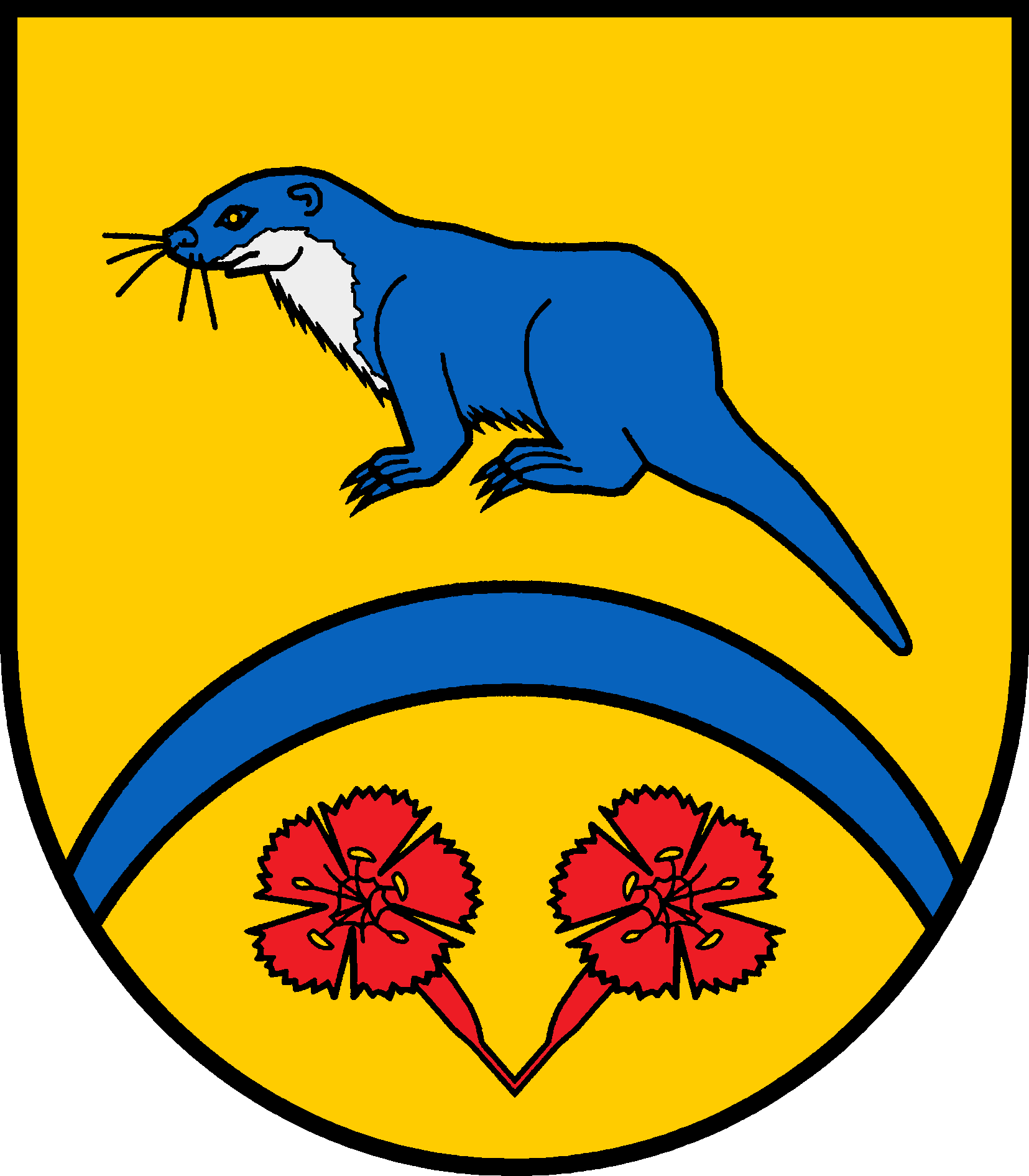 Coat of arms of the municipality Grambek in Schleswig-Holstein, Germany.